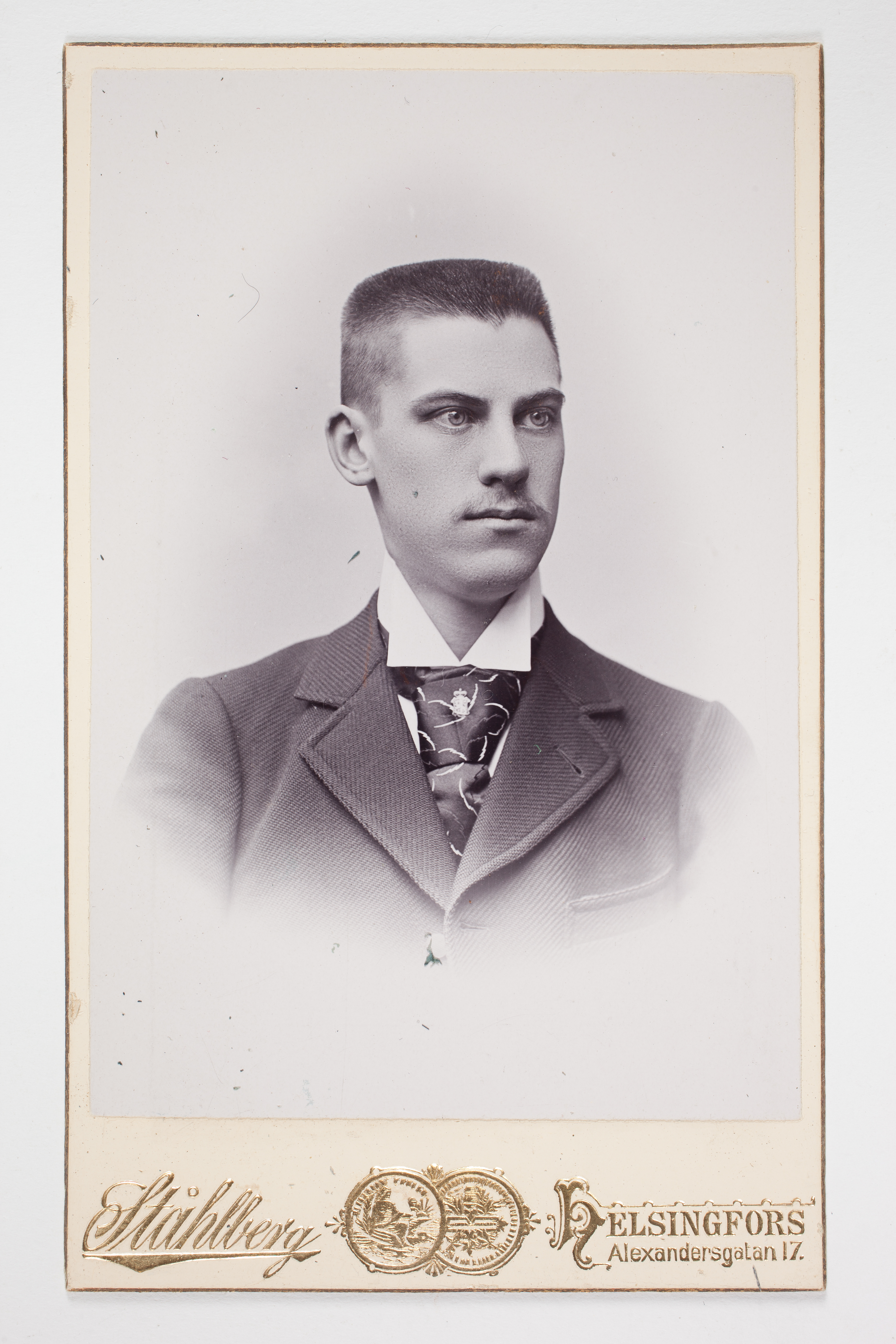 Finnish architect Emil Fabritius.